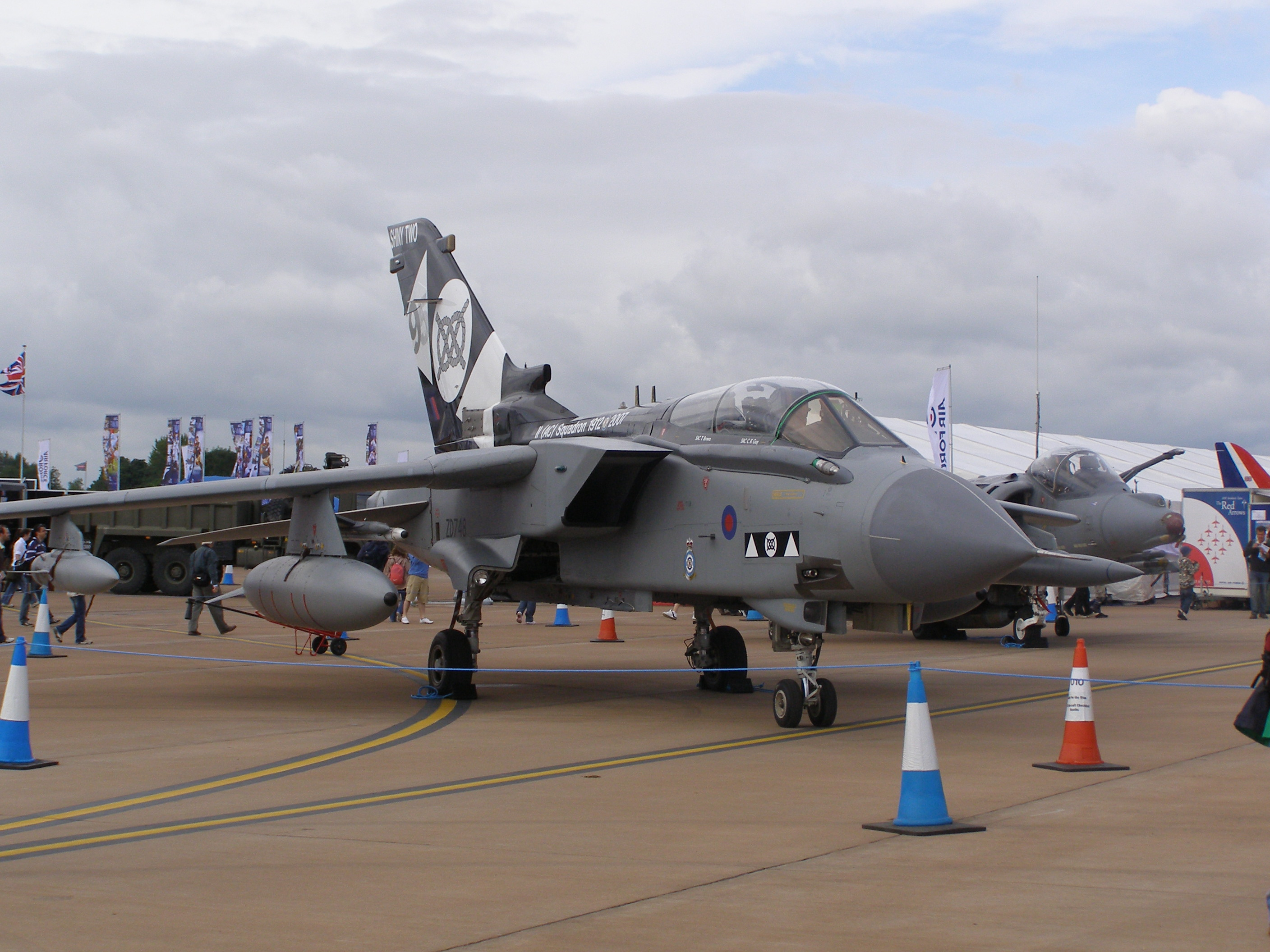 Panavia Tornado GR4 ZD748 at RAF Fairford in special 2 Sqn markings